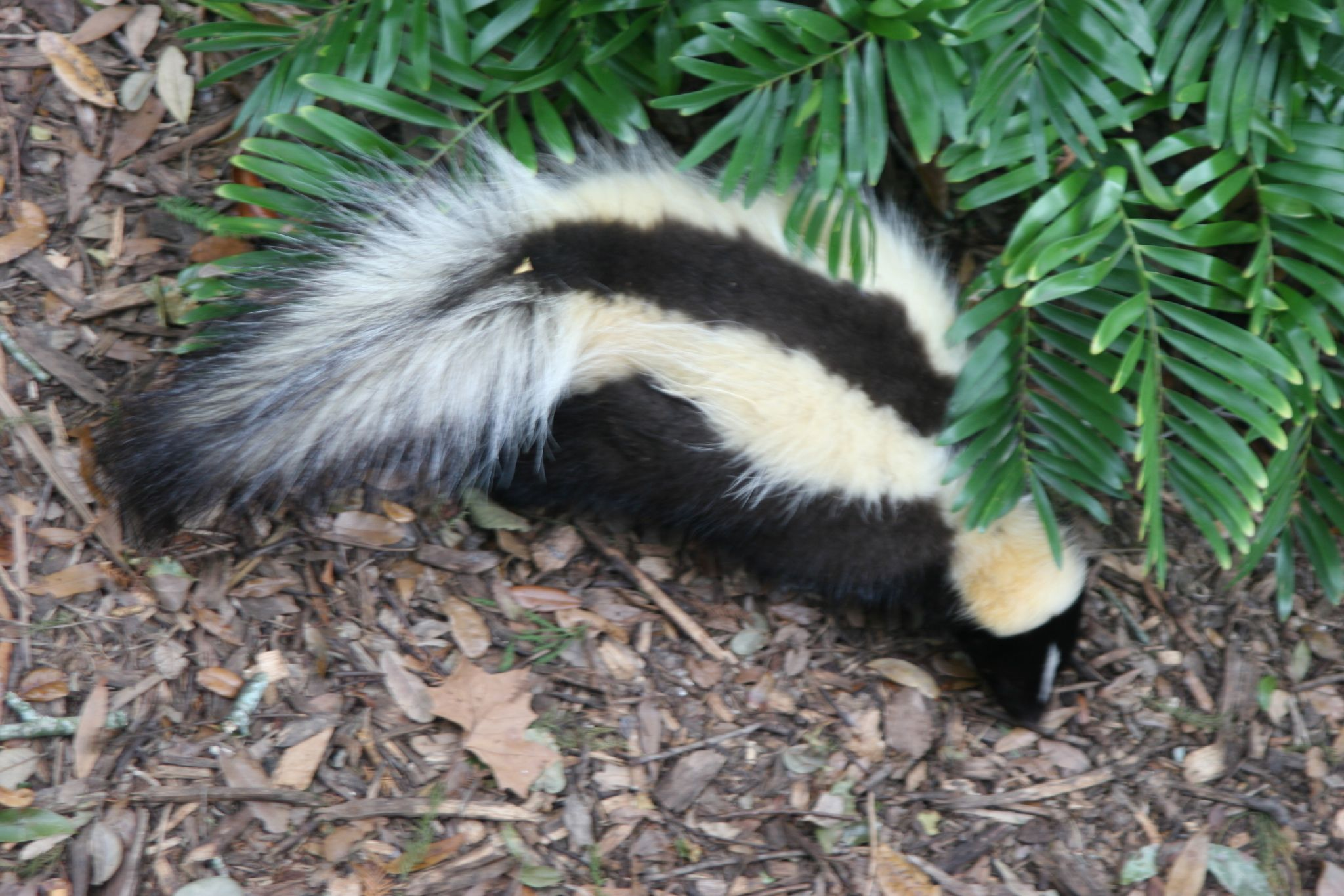 Skunk in Florida, Oct 2005